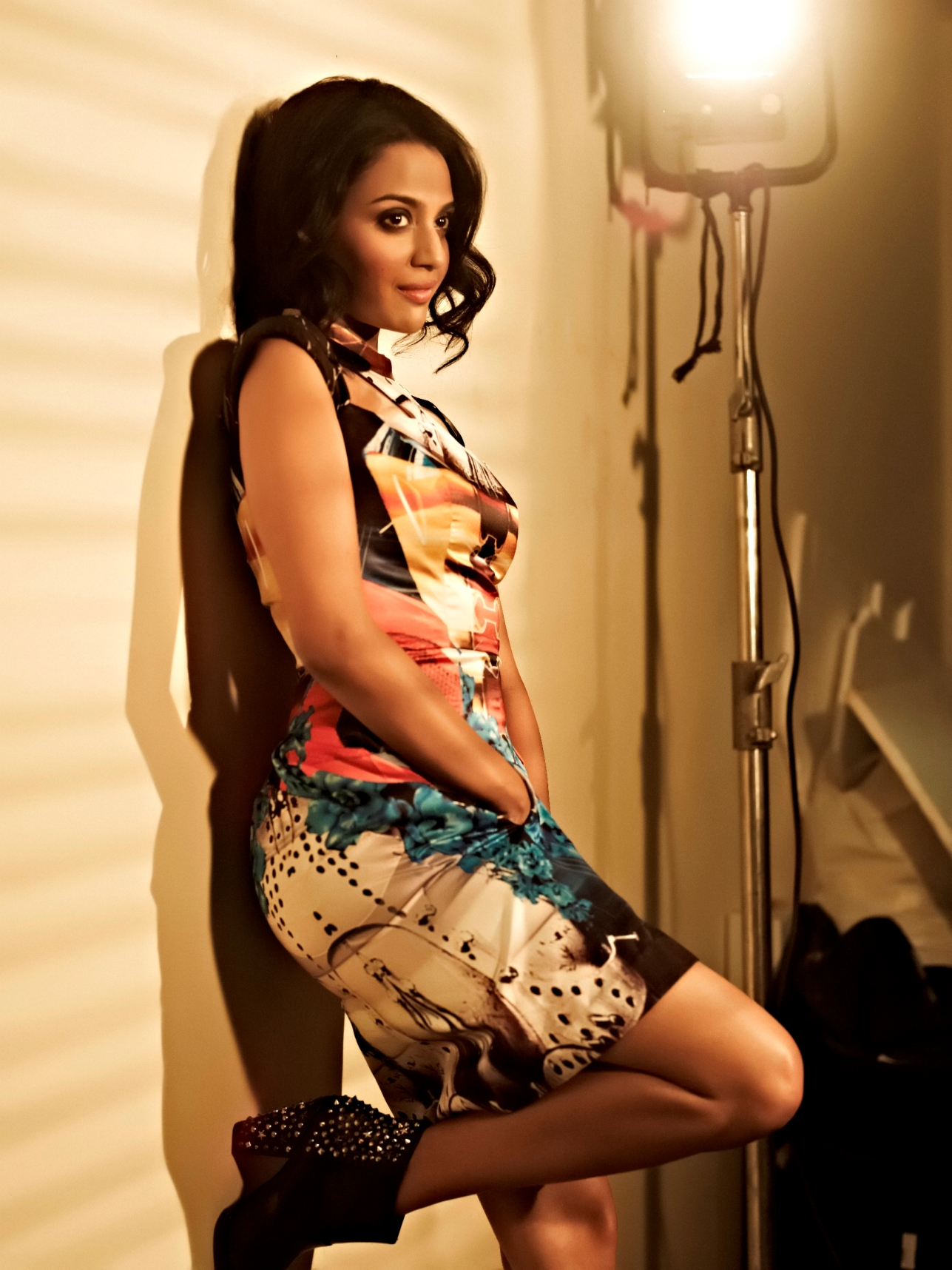 Photo